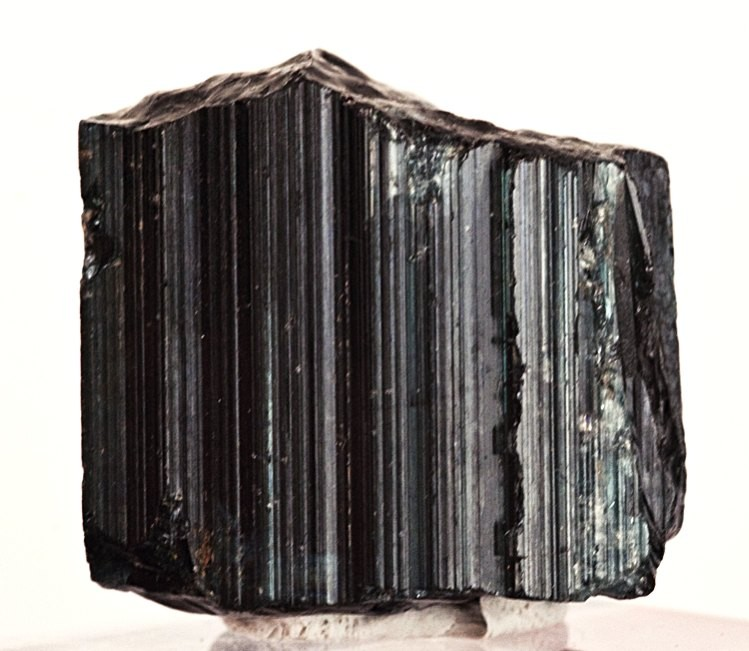 Foitite Locality: Mt Mica Quarry, Paris, Oxford County, Maine, USA (Locality at ) Size: 1.9 x 1.7 x 1.2 cm. A rare, old-time, purple foitite from Mt. Mica, Maine. The lustrous crystal is strongly striated and is doubly terminated, with the terminations being etched. The un-retouched backlit photo highlights the purple color saturation and gemminess of this crystal. From an older museum collection dating to prior to WW I.